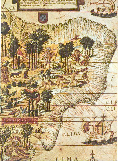 Map of Brazil in the Miller Atlas of 1519. Scan from 《社会历史博物馆》 ISBN 7-5347-1397-8 "社会历史博物馆" / "Social Historical Museum" 16世纪巴西的地图 / The map of Brasil in 16th century 1519年葡萄牙人绘制 / Issued in Portugal in 1519